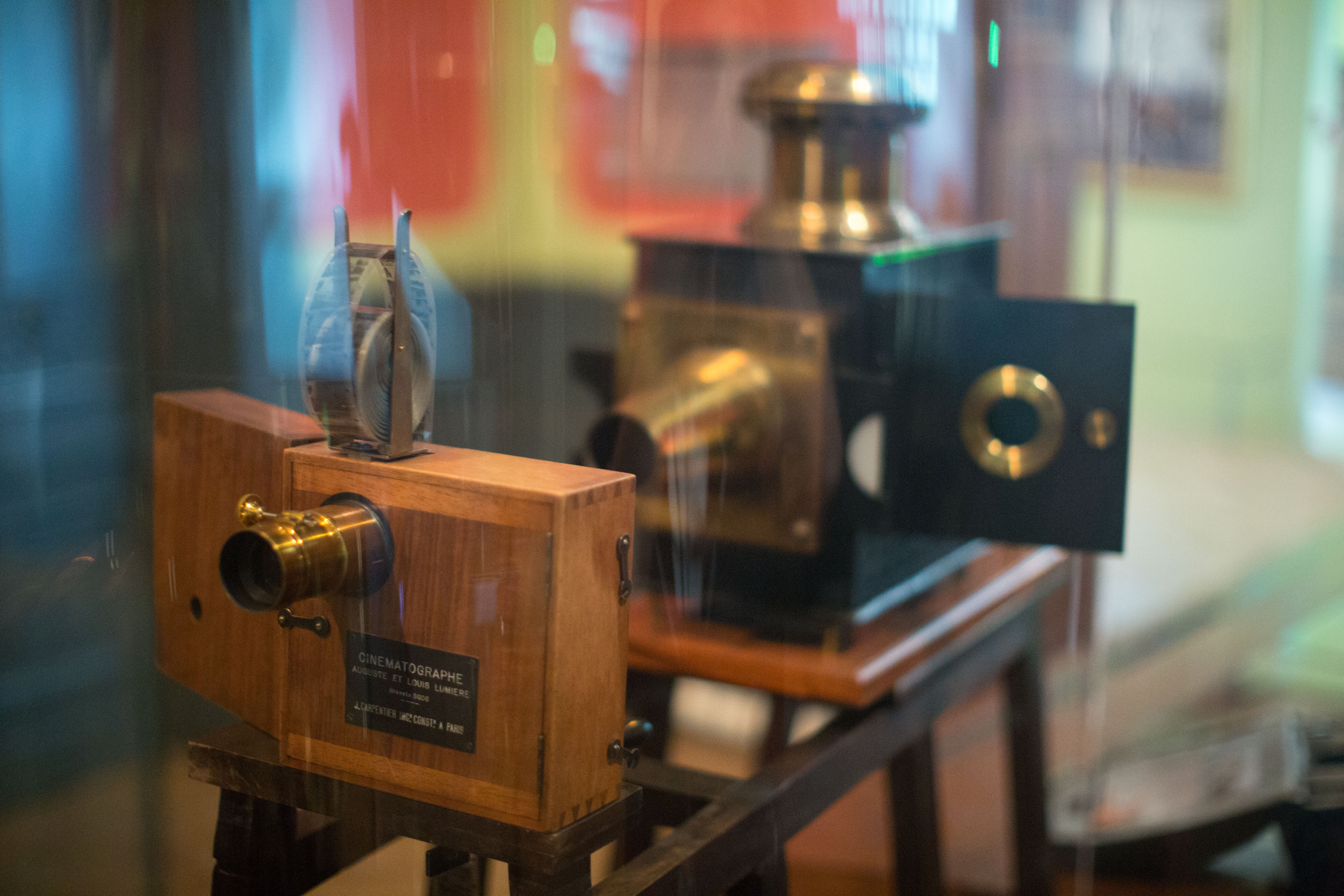 Institut Lumière - Cinematograph